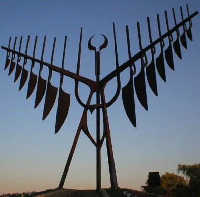 The Spirit Catcher by Ron Baird (1986) sculpture in Barrie, Ontario, Canada. Photo taken by GTD Aquitaine.